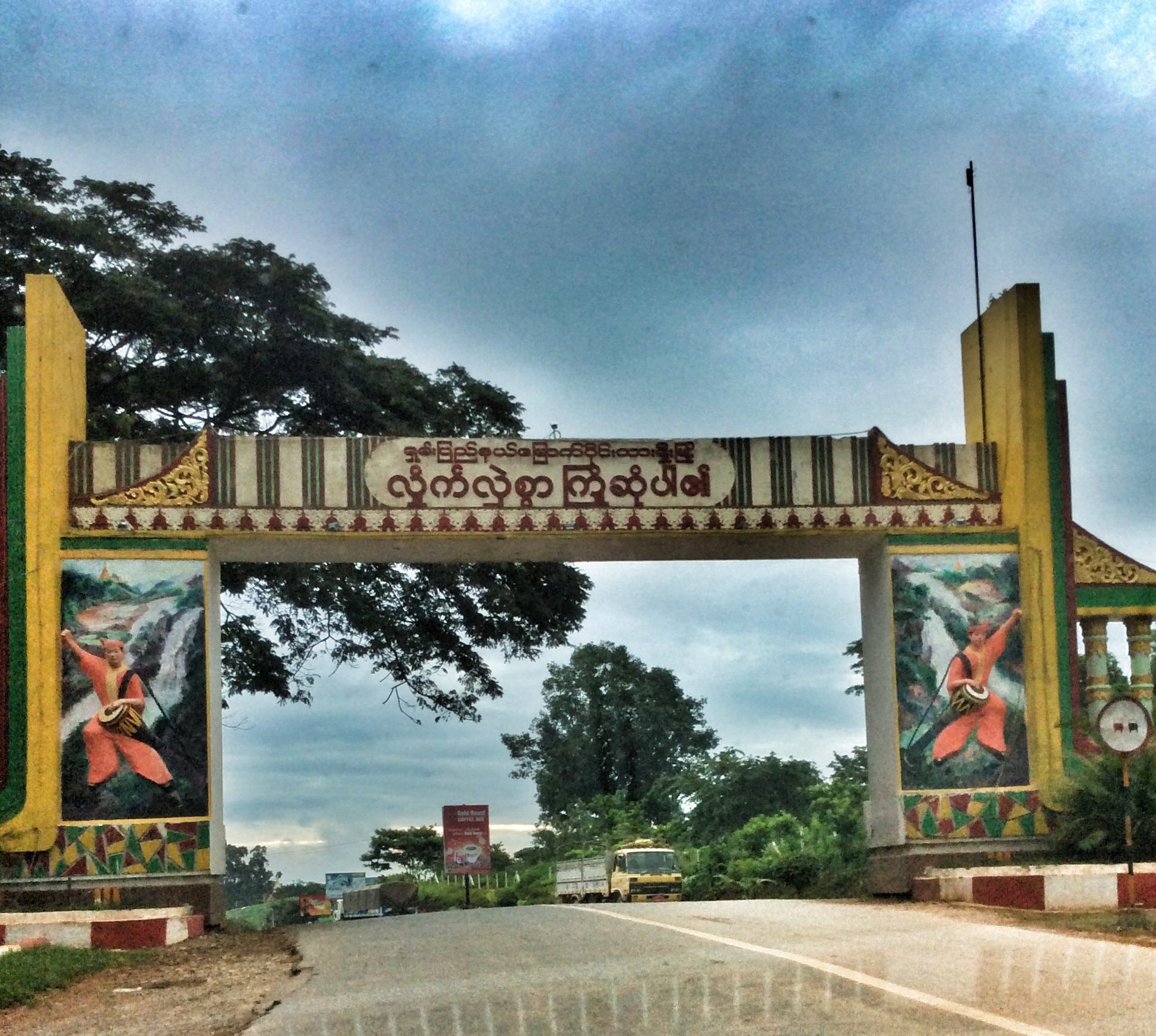 Lashio gate